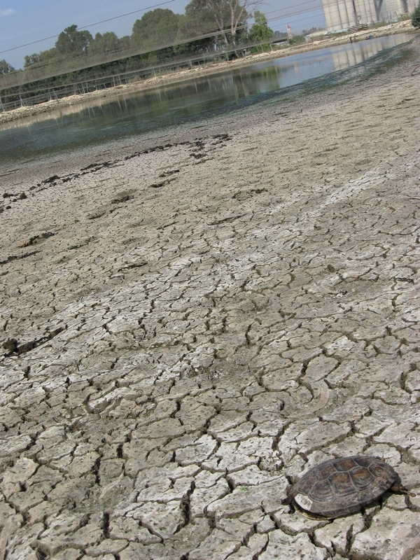 Dry land, Geography of Israel